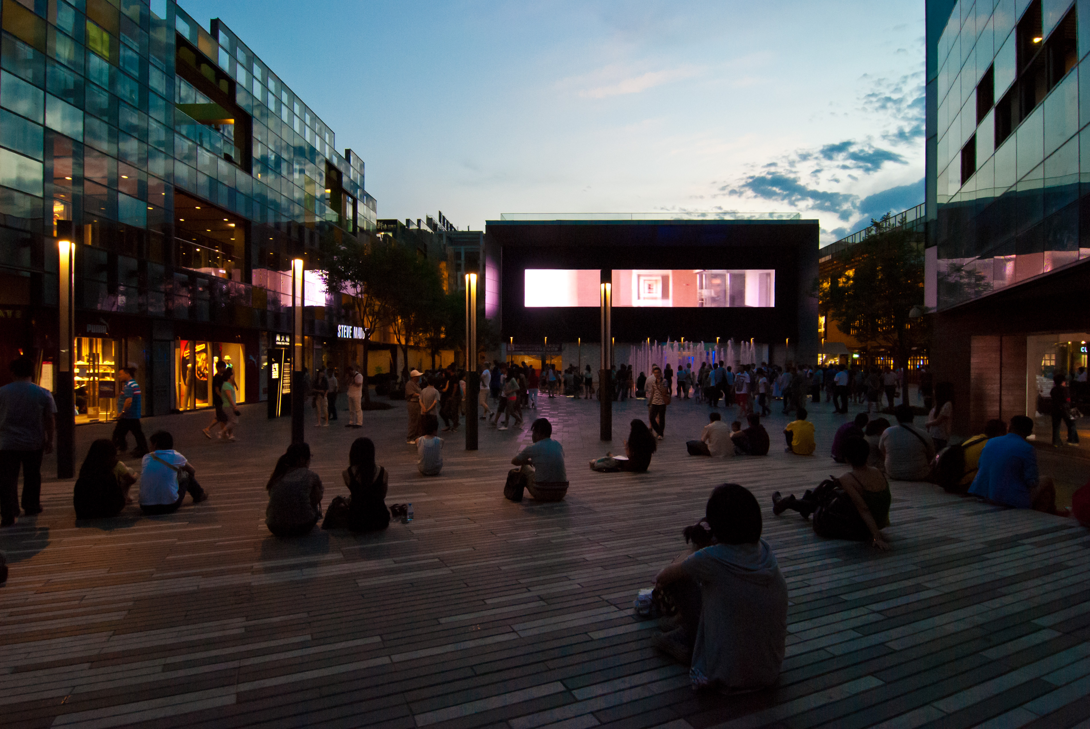 Plaza at Sanlitun